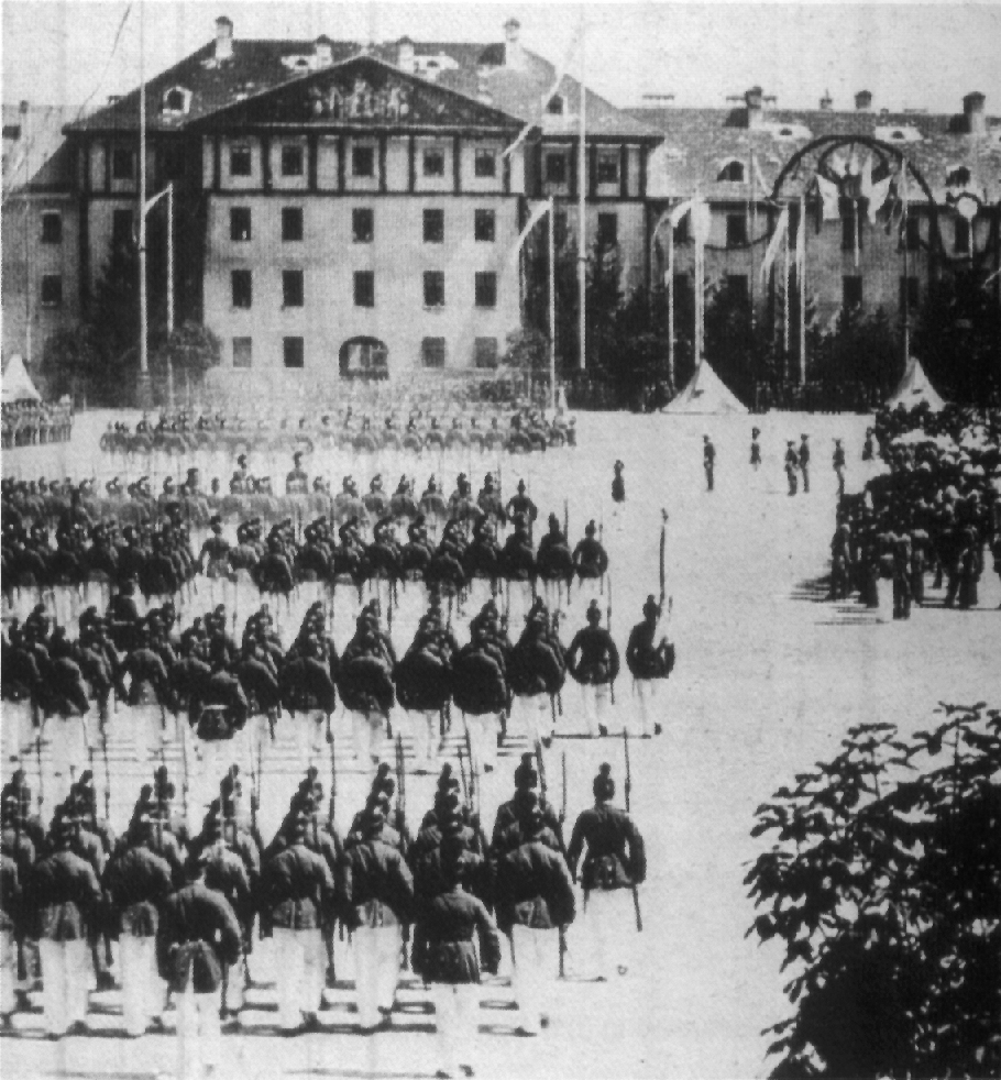 Parade of the royal bavarian 2. Infanterie-Regiment „Kronprinz“ (2nd infantry regiment „crown prince“) on the courtyard of the Türkenkaserne barracks in Munich in 1882. The cause for the parade was the 200. anniversary of the regiment.